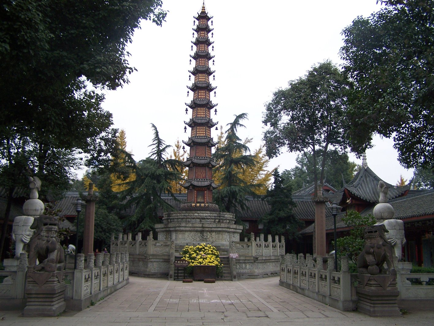 The tower of WenShuYuan in ChengDu China.